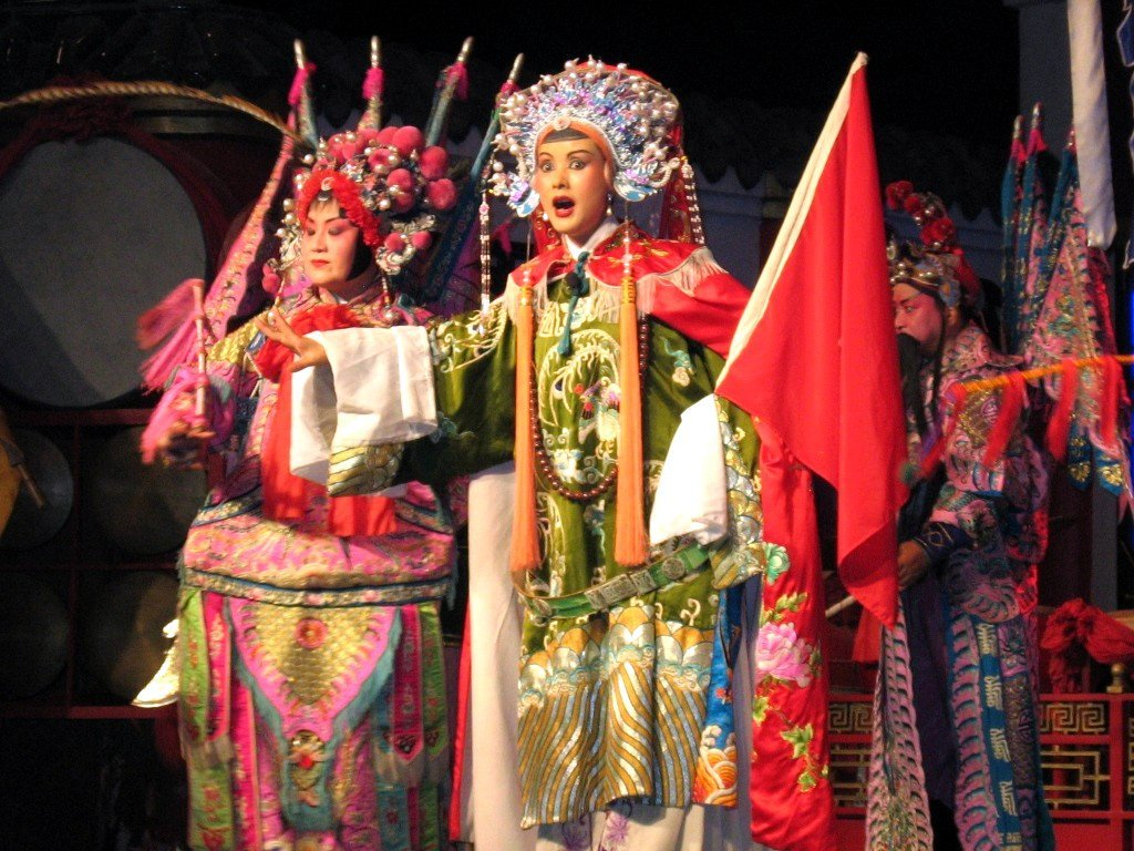 Sichuan opera in Chengdu. Actors.